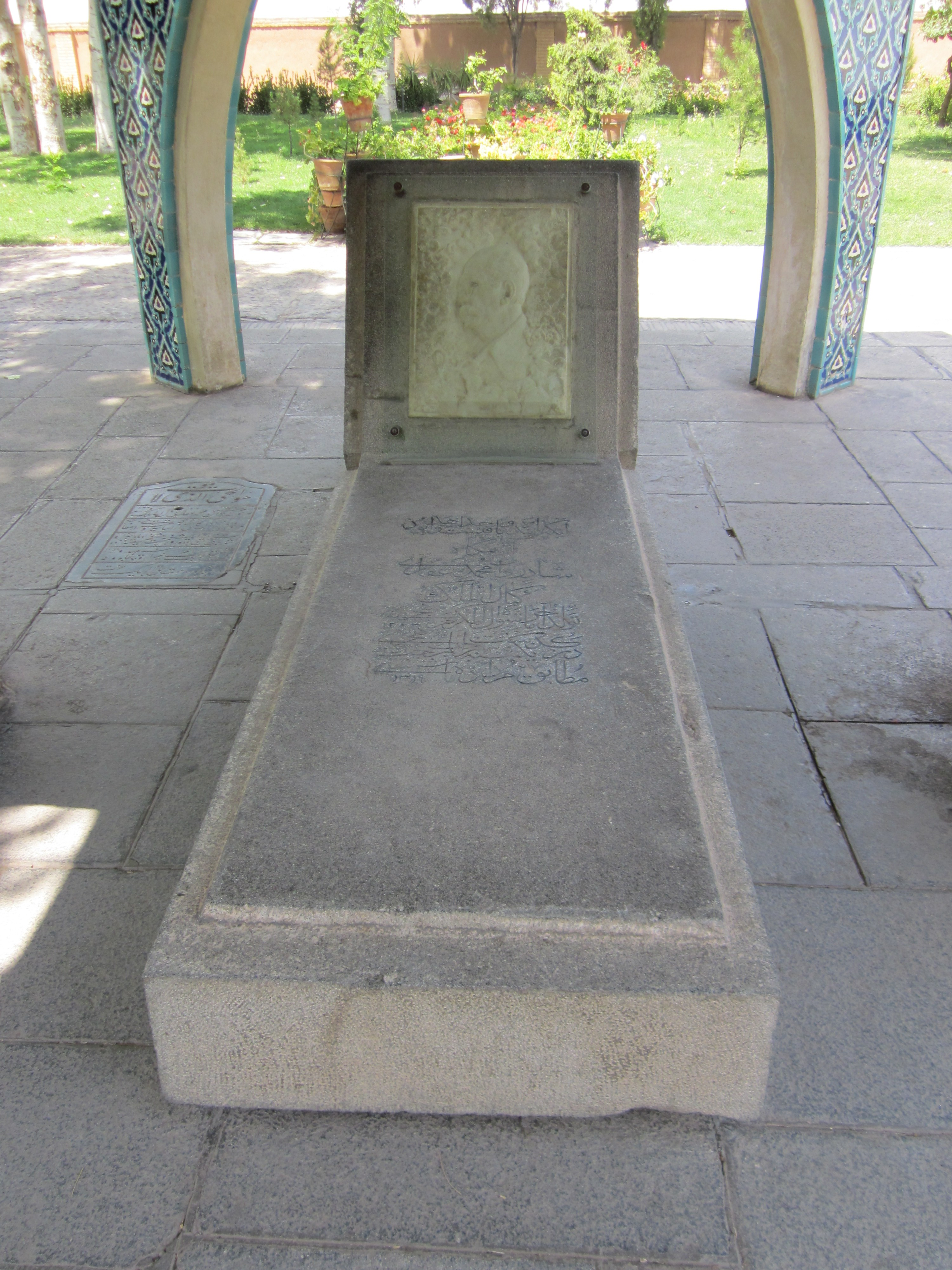 Tomb of Kamal-ol-Molk, Neyshabour, Iran.